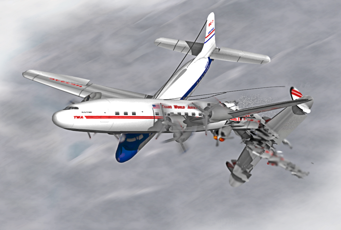 Aircraft involved in the 1956 Grand Canyon mid-air collision